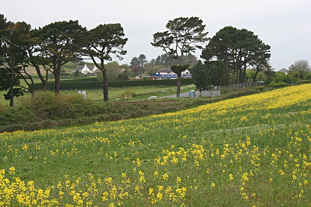 Towards Trerulefoot. Looking across a rapeseed field, railway line, pine trees and one of the roads which meet at Trerulefoot junction.